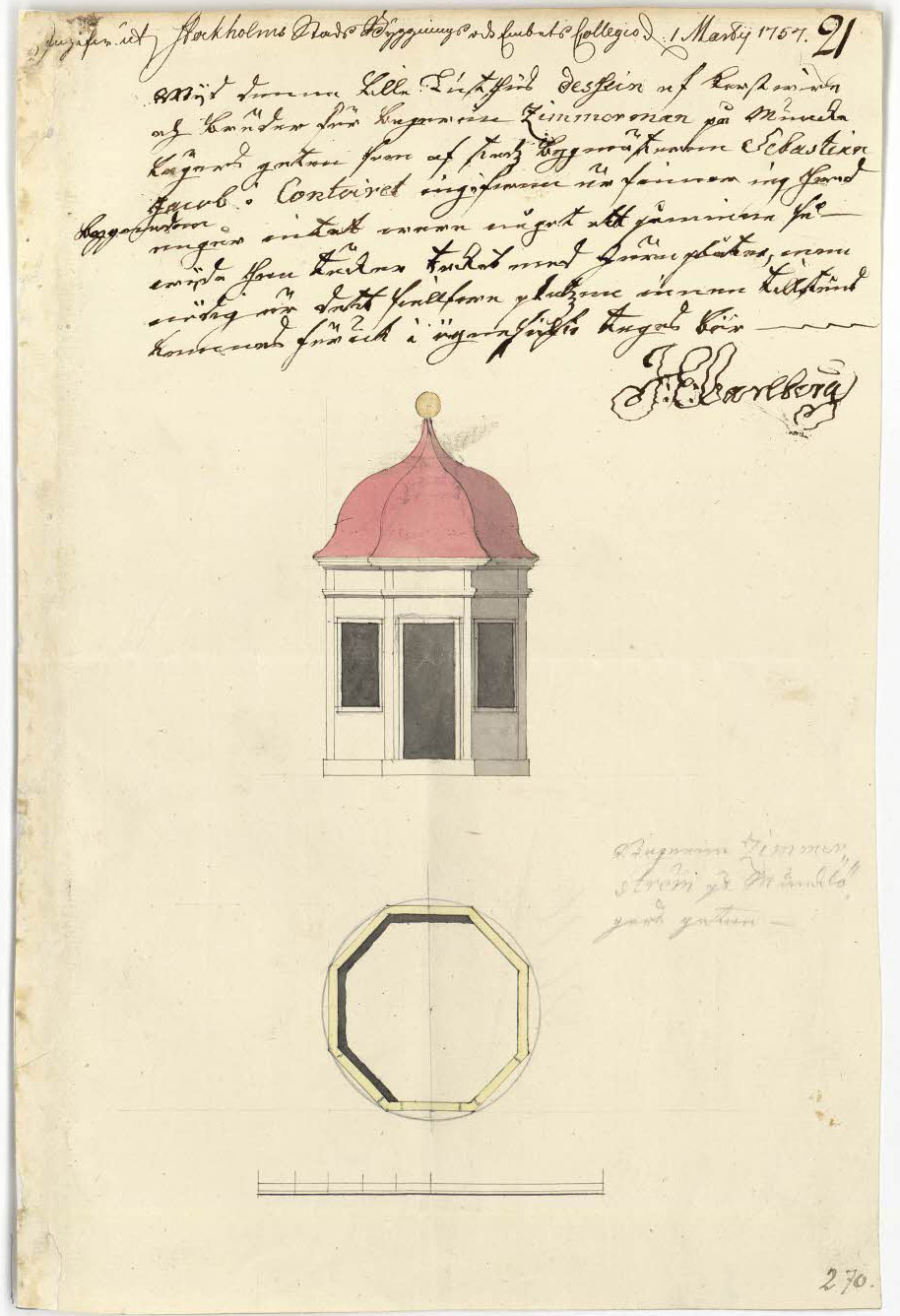 Pavilion, Stockholm, Sweden